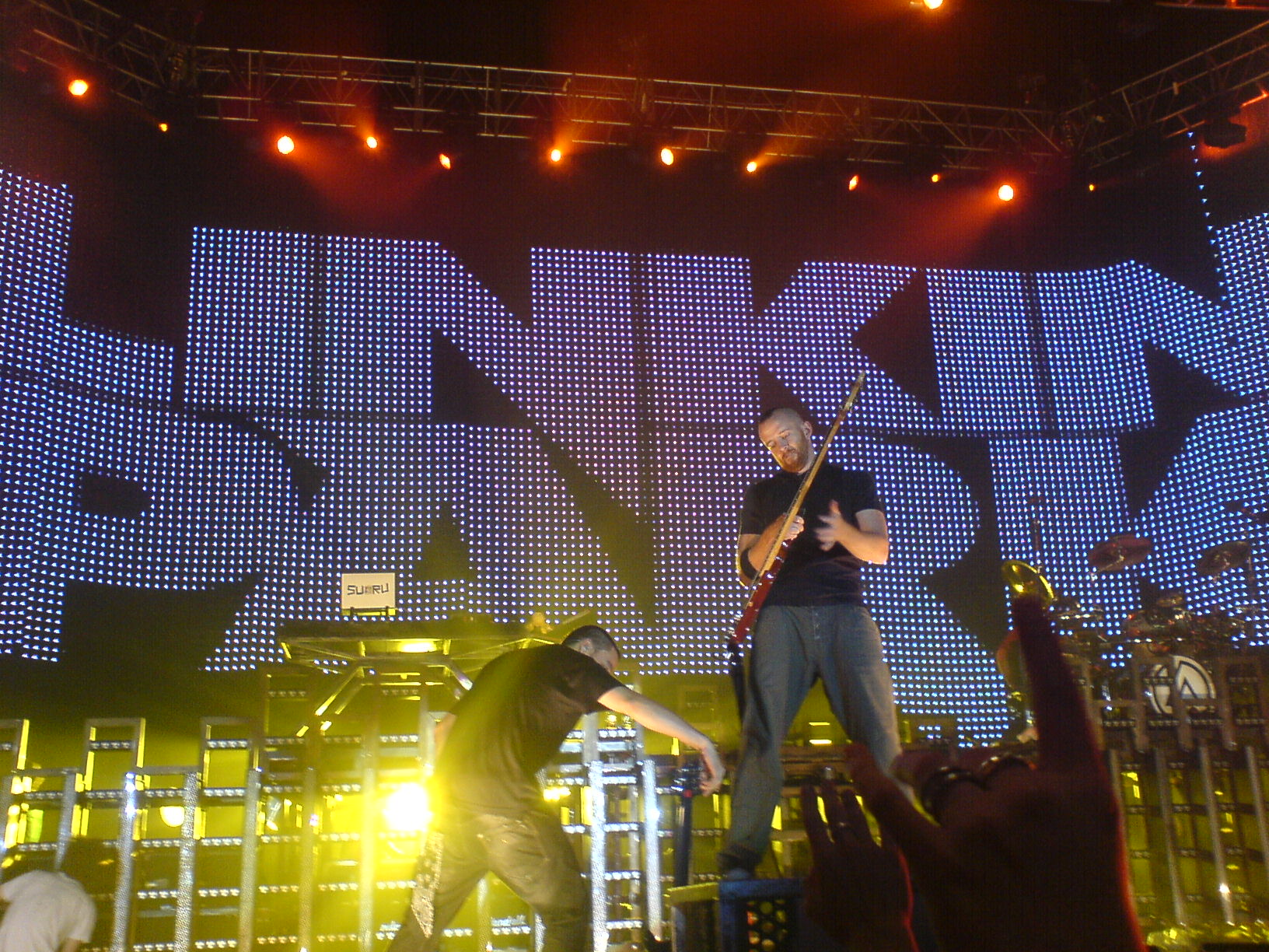 Linkin Park 2007, live in Prague